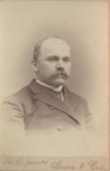 Photograph of Darwin Rush James.